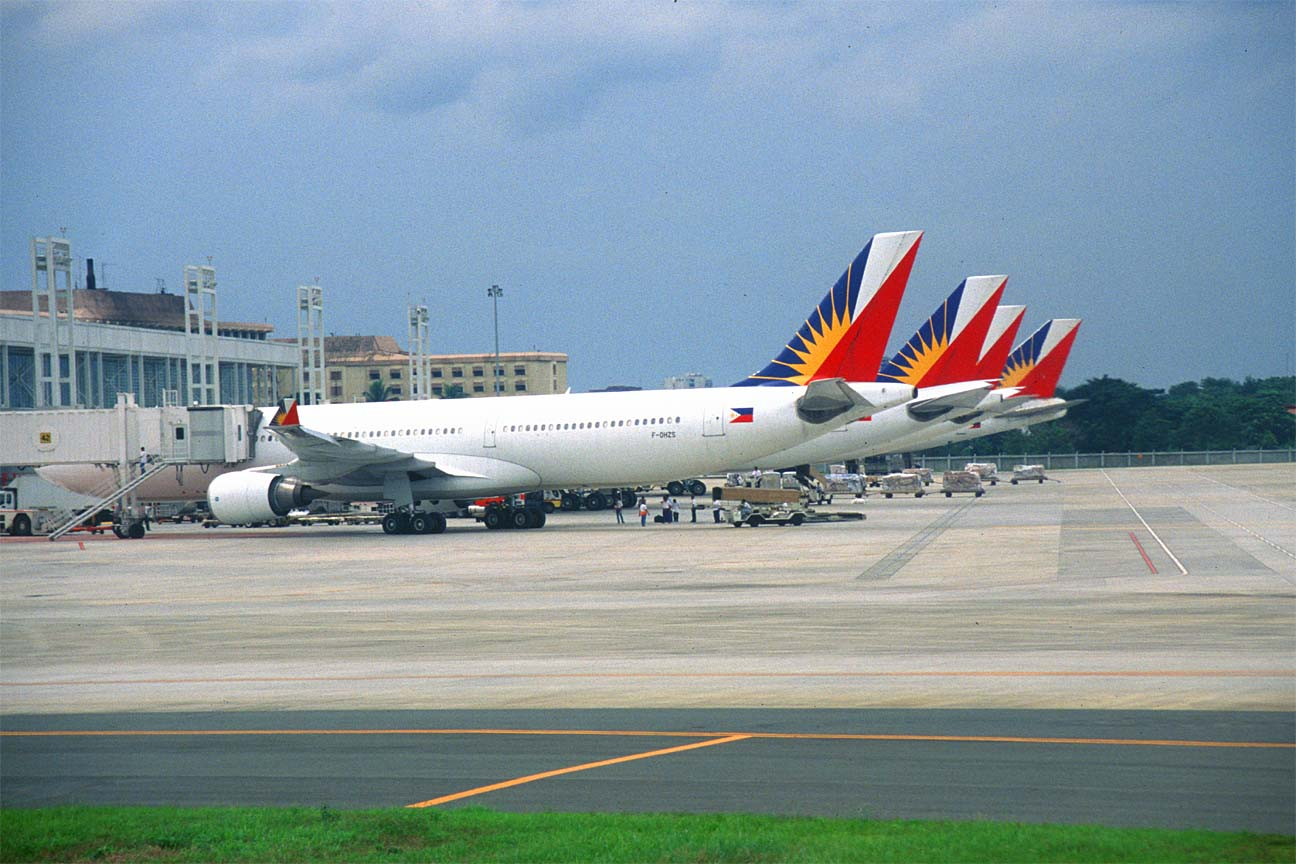 made it myself